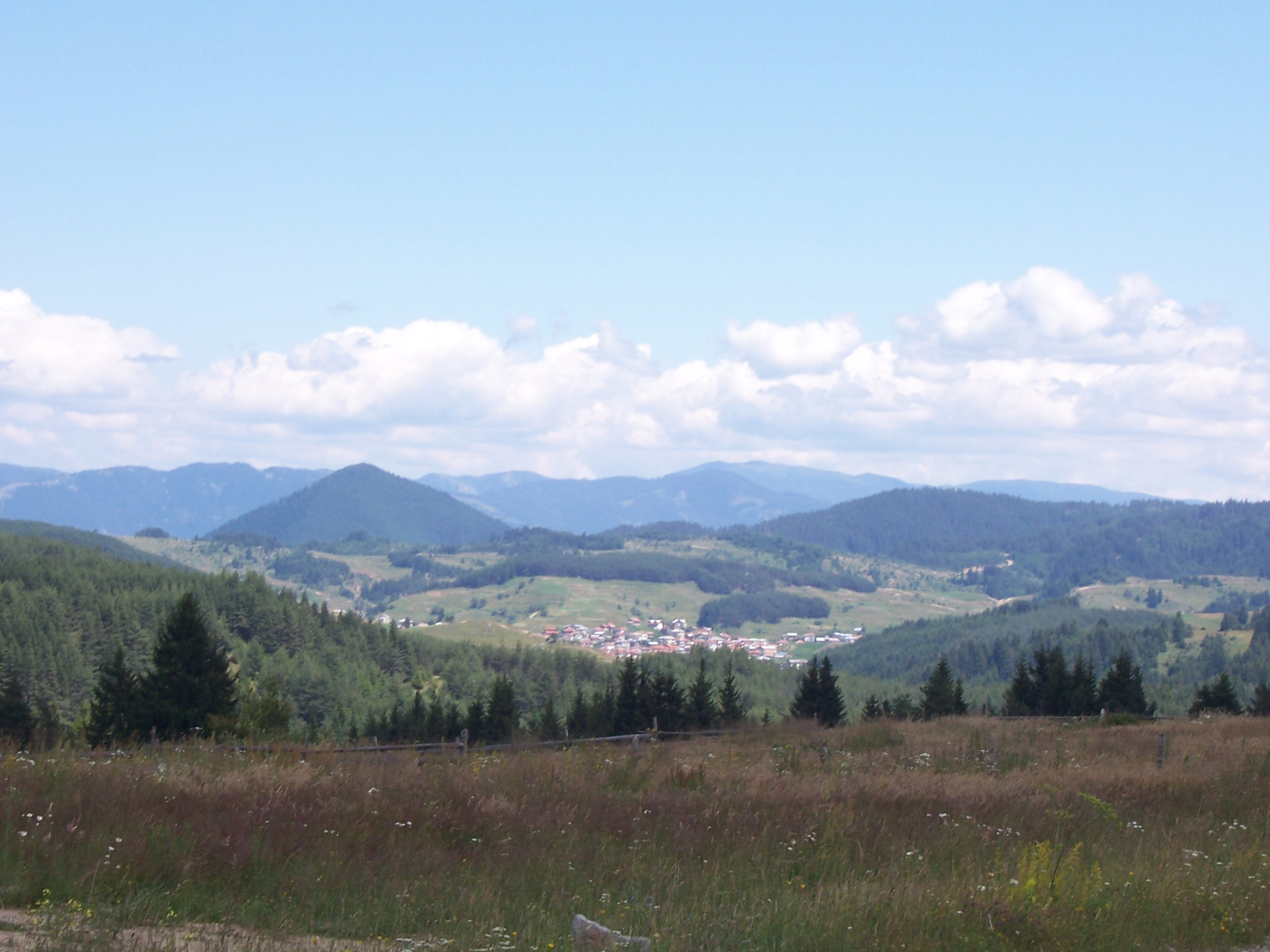 The village of Zmeitsa and the Videnitsa Summit.